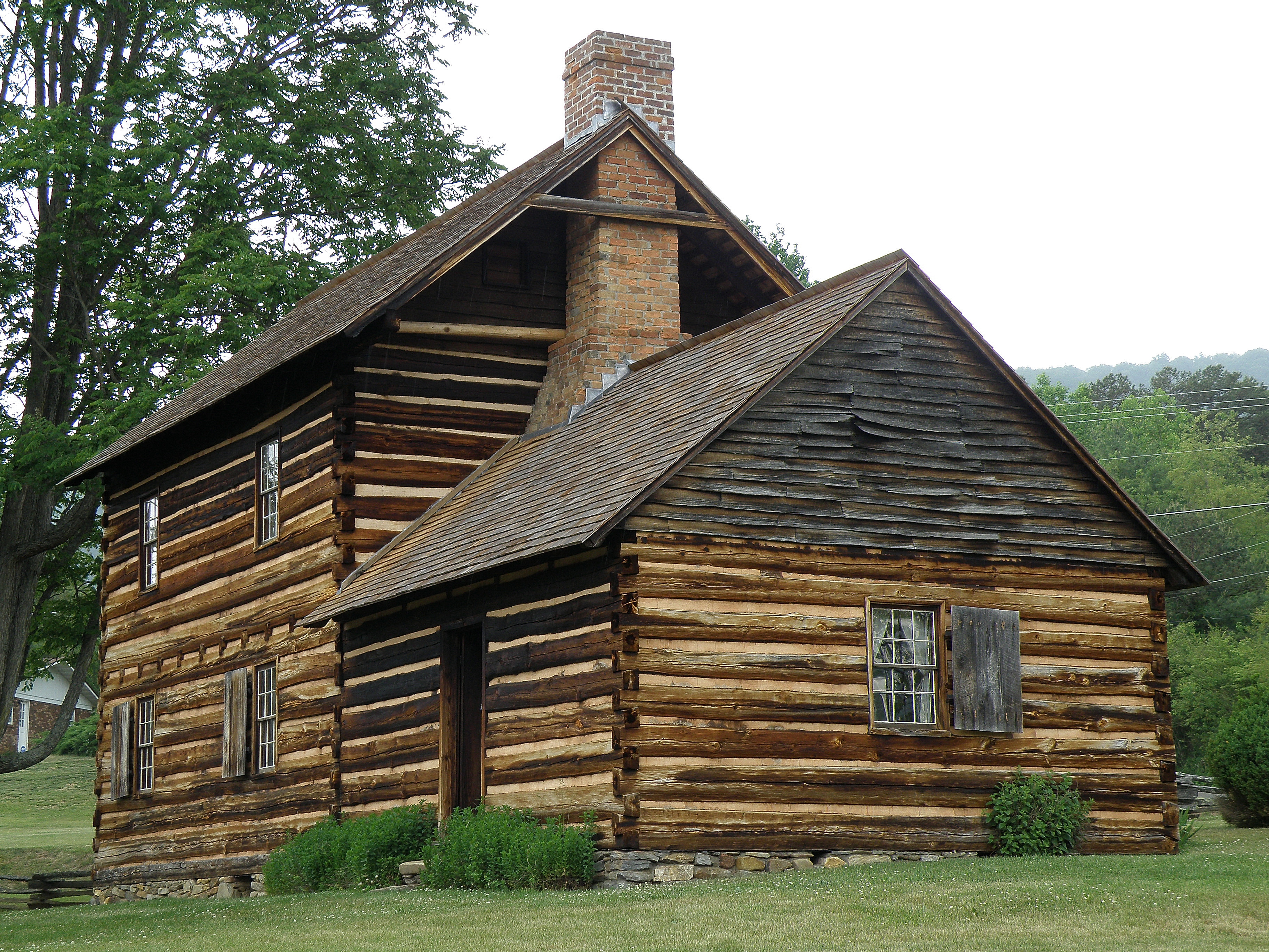 Zebulon Vance was the Governor of North Carolina during the Civil War. He was re-elected after Reconstruction and was also a Senator for three terms.